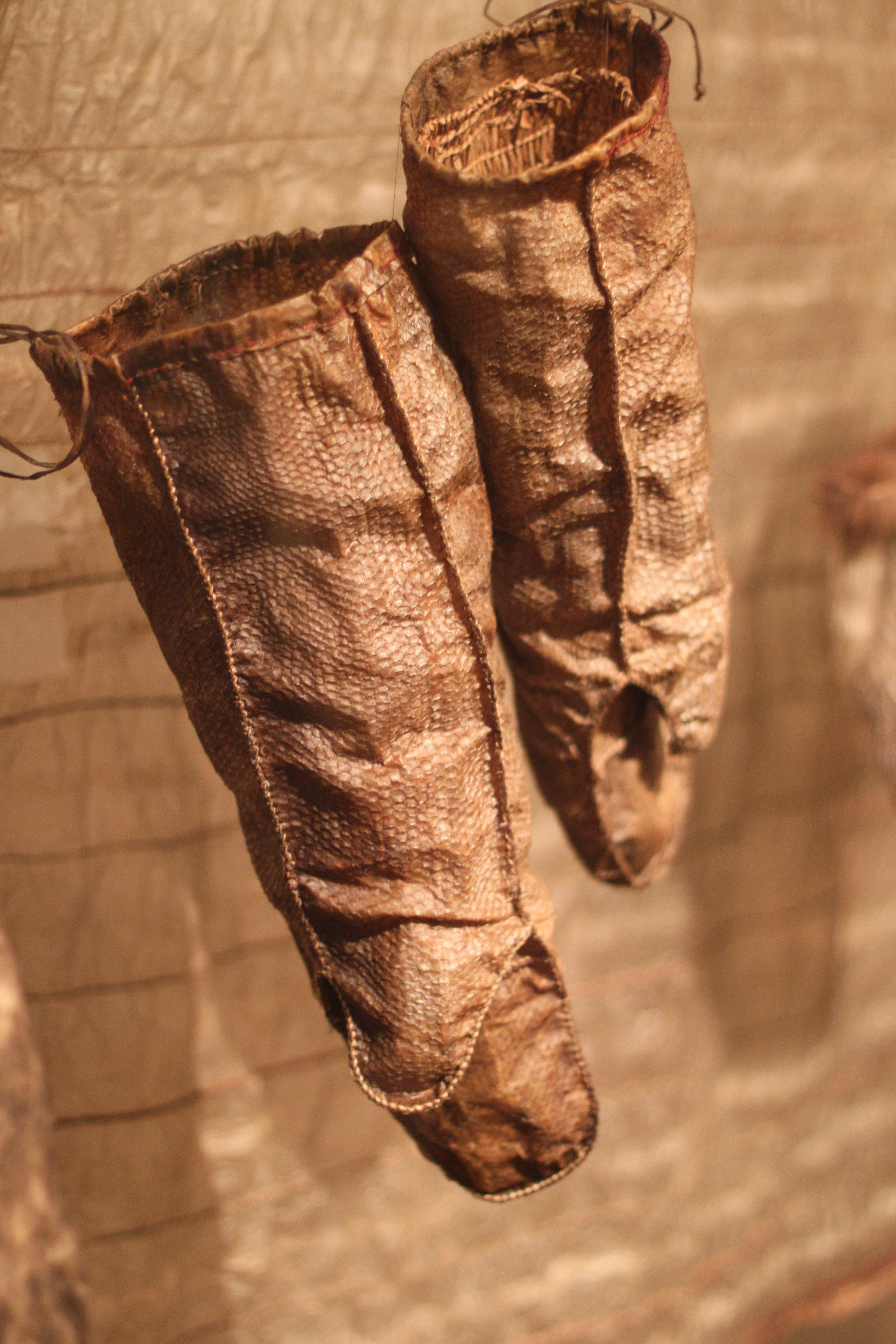 Kayak mittens; made from salmon skin; inside, mittens woven of grass; "Alaska-Eskimo"; collection Jacobsen 1883